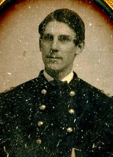 Daguerreotype portrait of Oliver Wendell Holmes, Jr., by Oliver Wendell Holmes Sr. Image courtesy of the Harvard University Library.